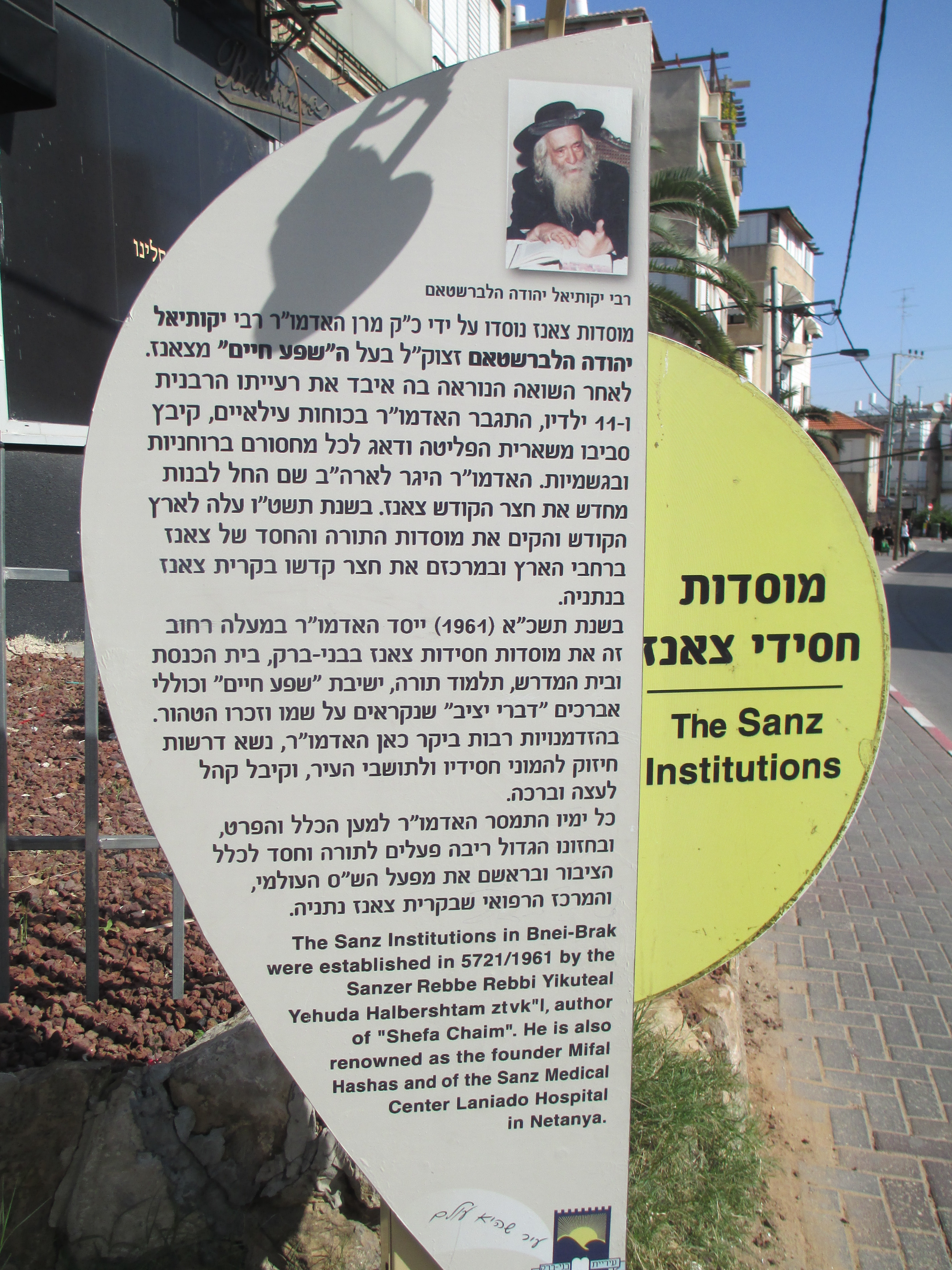 memorial plaque to rabbi yekutiel halbershtam (sanzer rebbe) in bnei brak לוחית זיכרון לרב יקותיאל יהודה הלברשטאם ברח' יהודה הלוי בבני ברק